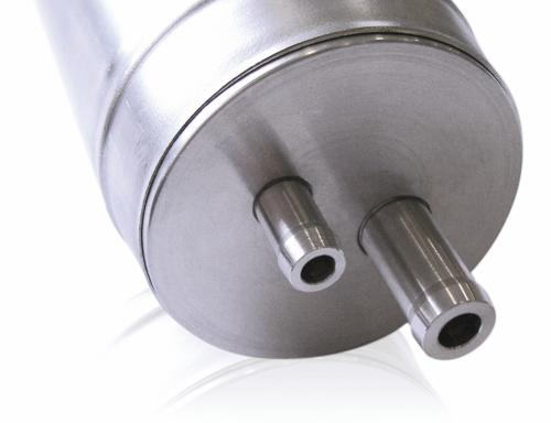 EMPT welding of pressure vessels at PSTproducts GmbH